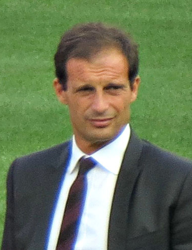 Massimiliano Allegri, coach of AC Milan, in 2012.